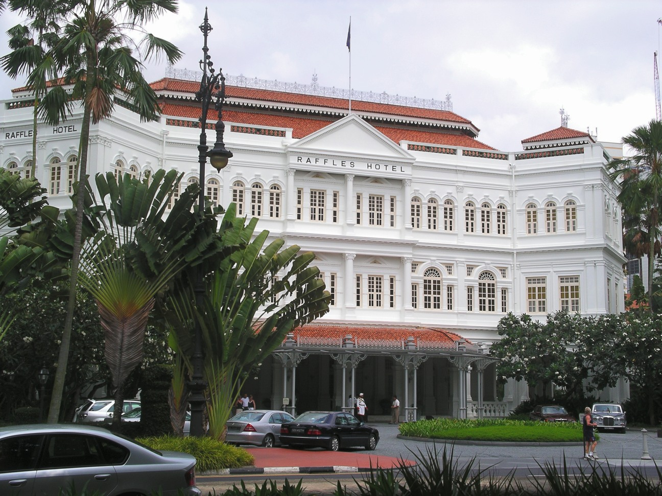 Raffles Hotel in Singapore. Taken with a Pentax Optio 555 digital camera (1/259s @ f5.6).